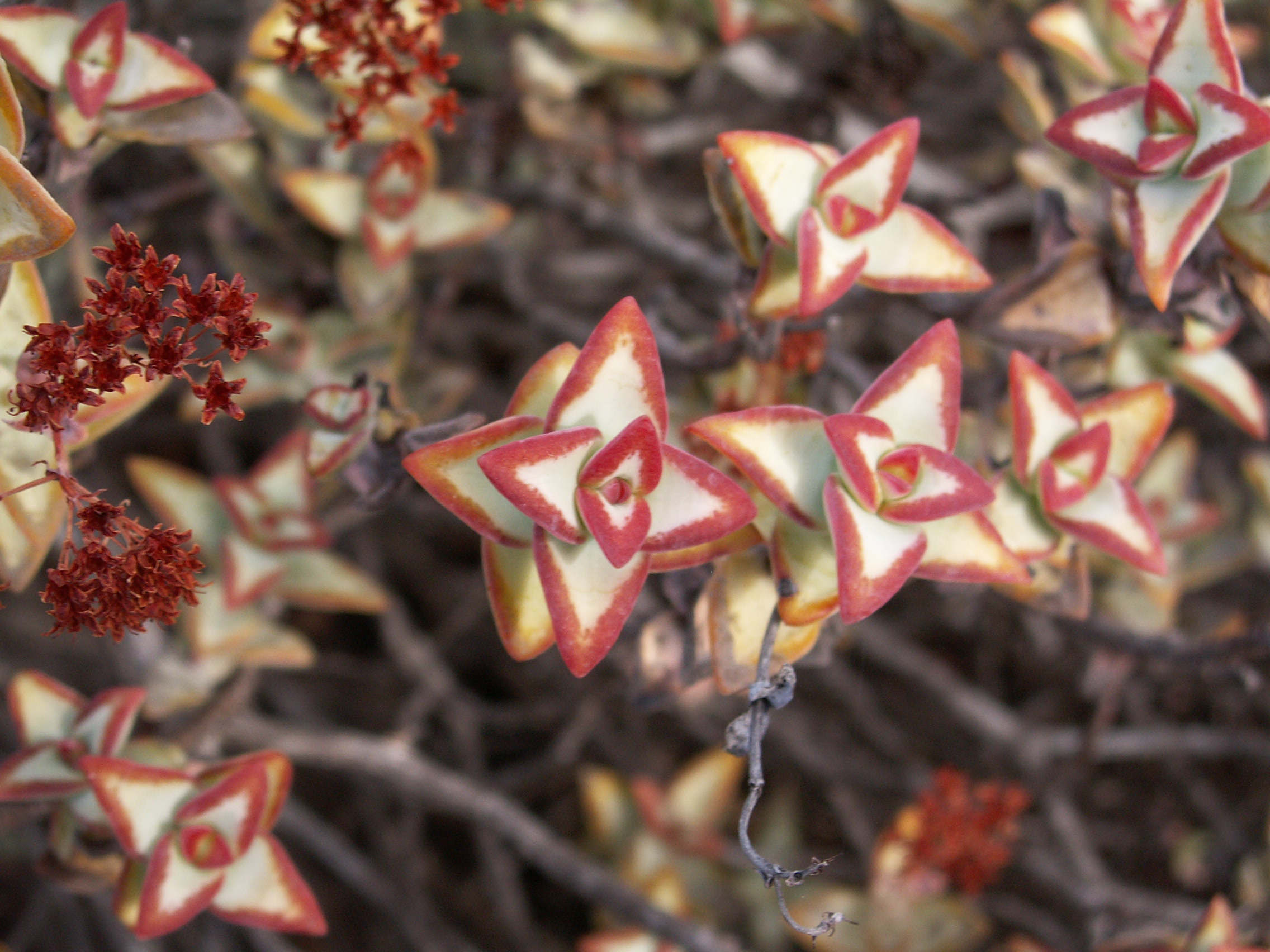 Kebab Bush, Concertina Bush, Crassula rupestris Thunb. (Crassulaceae), Little Karoo, Ladismith, Kannaland, Western Cape, South Africa